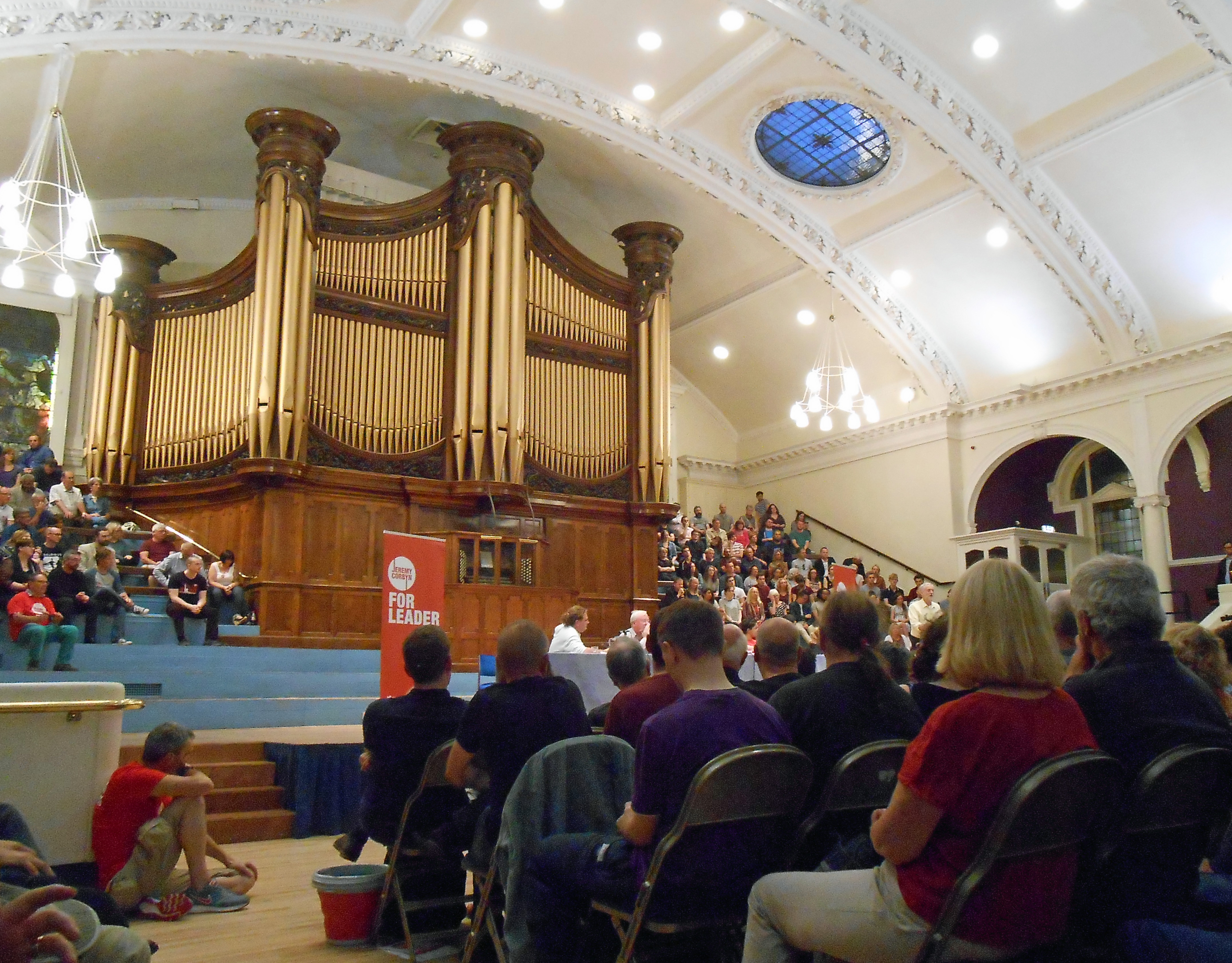 Jeremy Corbyn at his Labour Party leadership candidate rally at Nottingham Albert Hall.